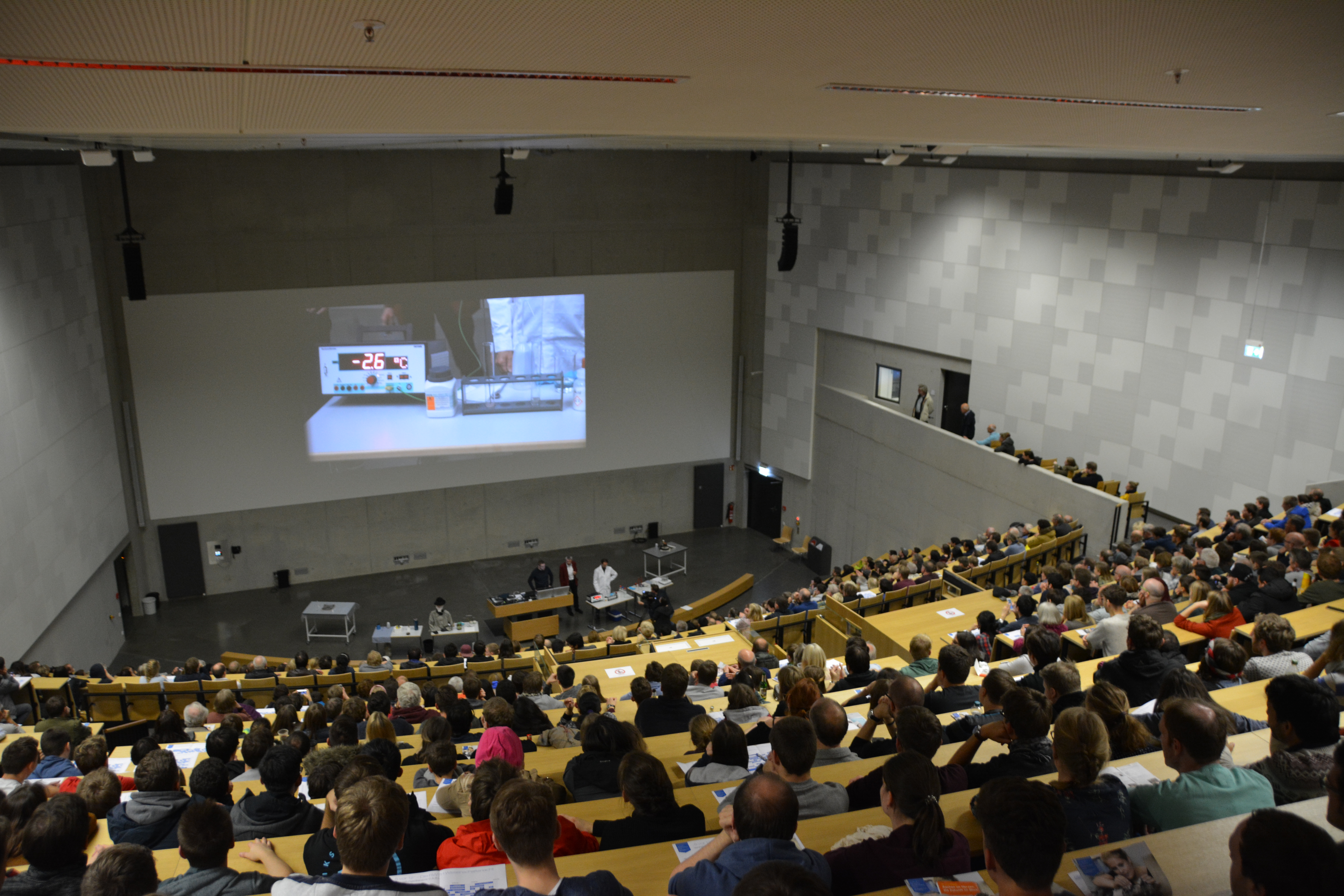 Lecture hall H02 of the RWTH Aachen at the science night on 10.11.2017